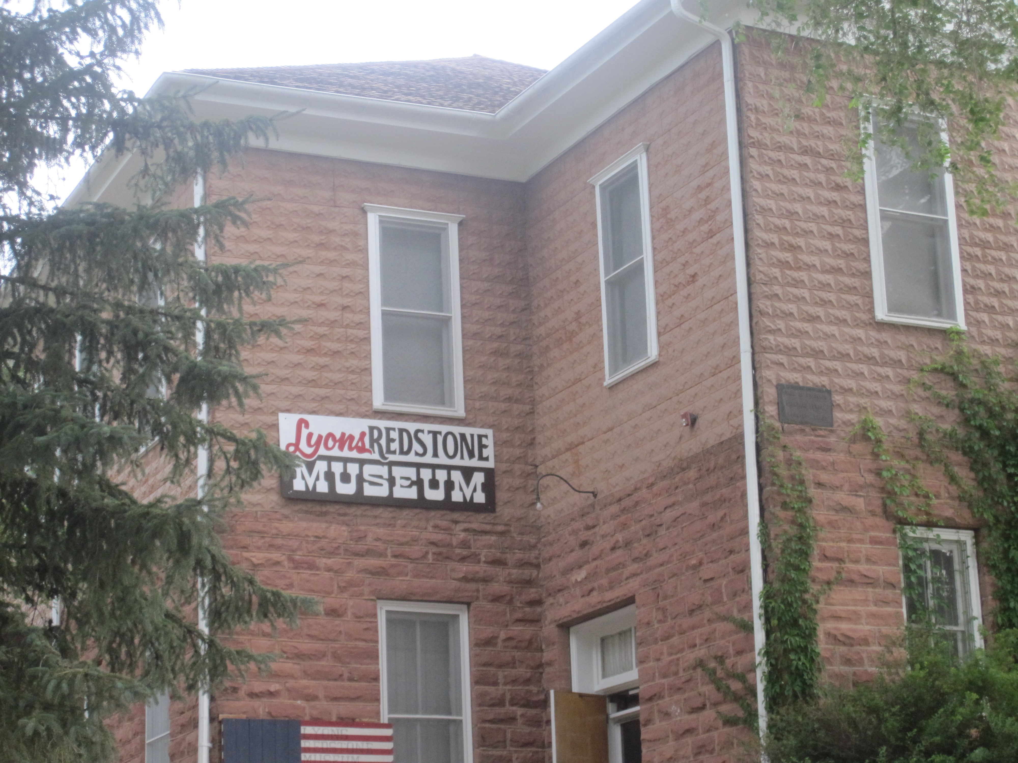 I took photo with Canon camera in Lyons, CO.